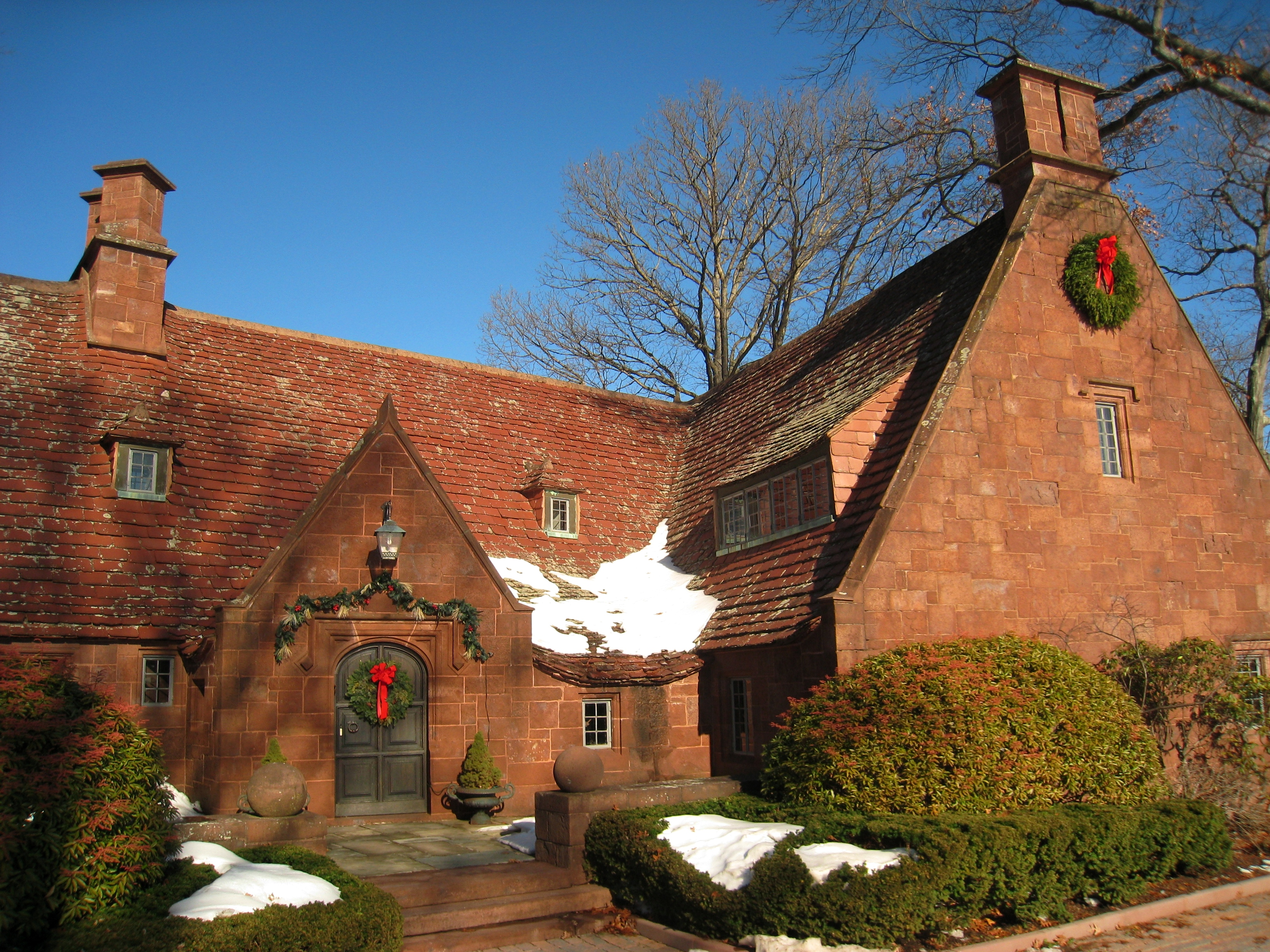 Avon Old Farms School, Avon, Connecticut, USA - exterior view. Architect Theodate Pope Riddle; school founded 1927.